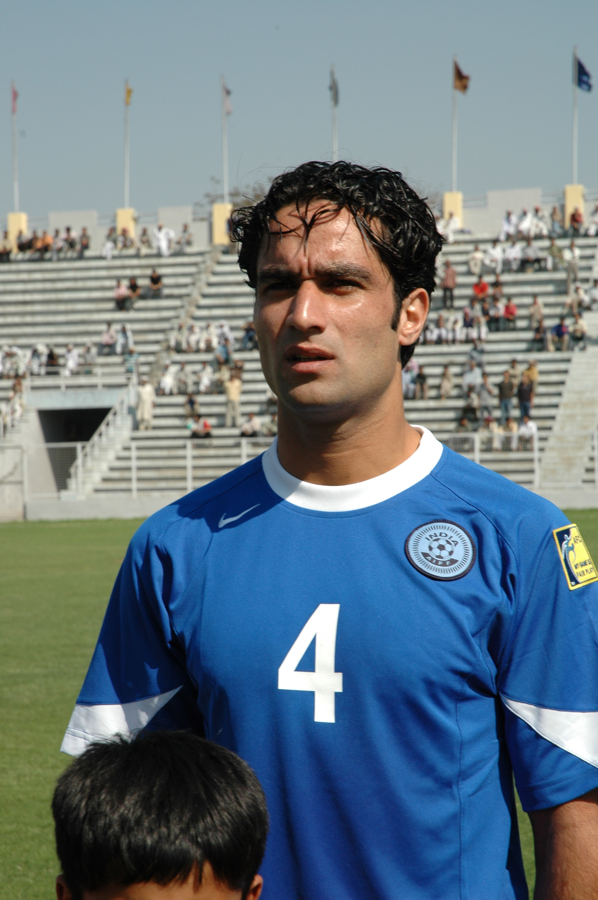 Mehrajuddin Wadoo during AFC Asian Cup 2007 qualifiers